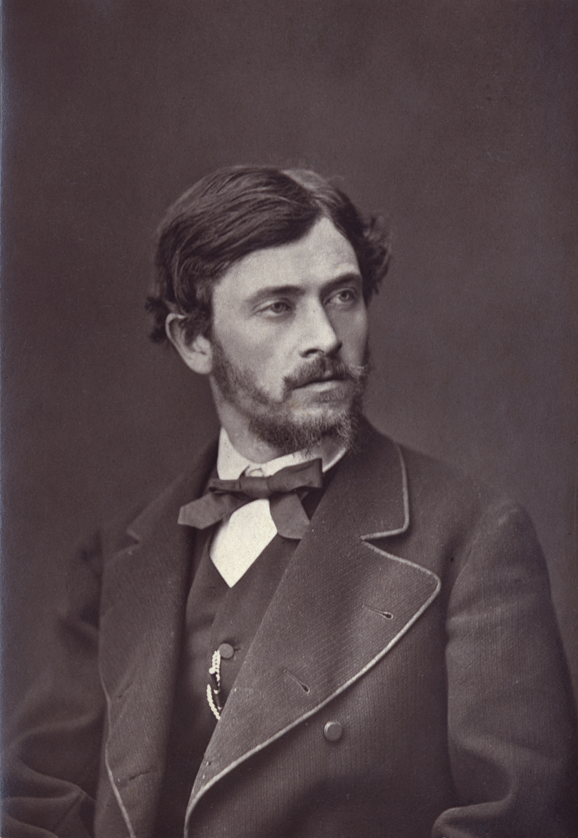 Potograph of Henri Pille, woodburytype published by Grasset et Gillot in Galerie contemporaine, littéraire et artistique, circa 1875.